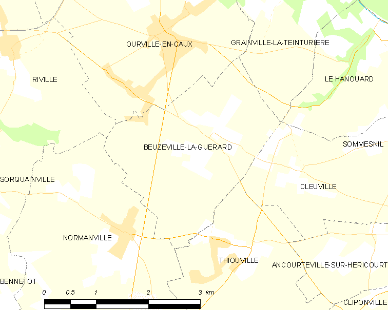 Map of French municipality Beuzeville-la-Guérard